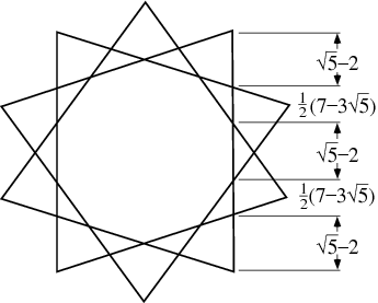 Lengths in a unit decagram.